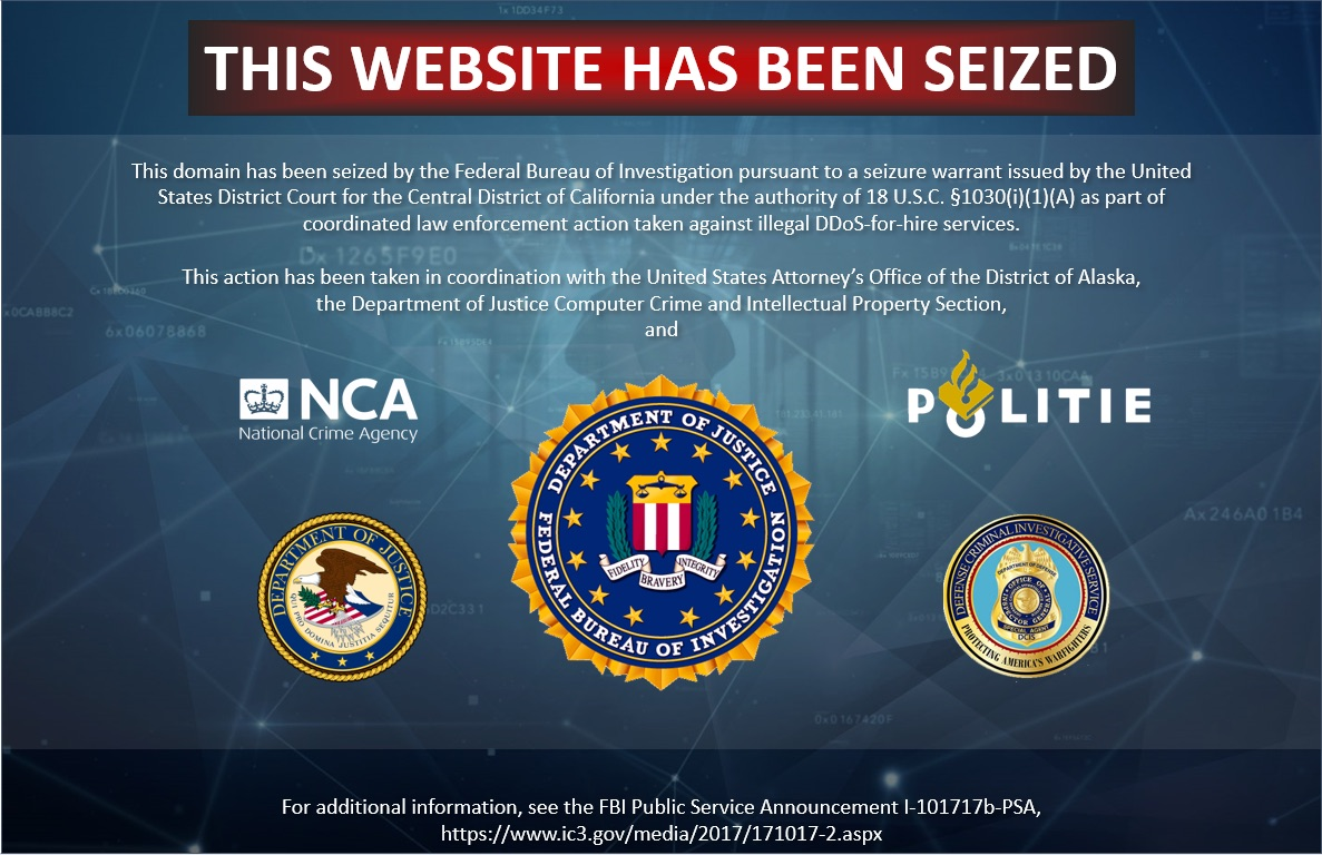 A number of DDoS websites were seized under the Computer Fraud and Abuse Act.